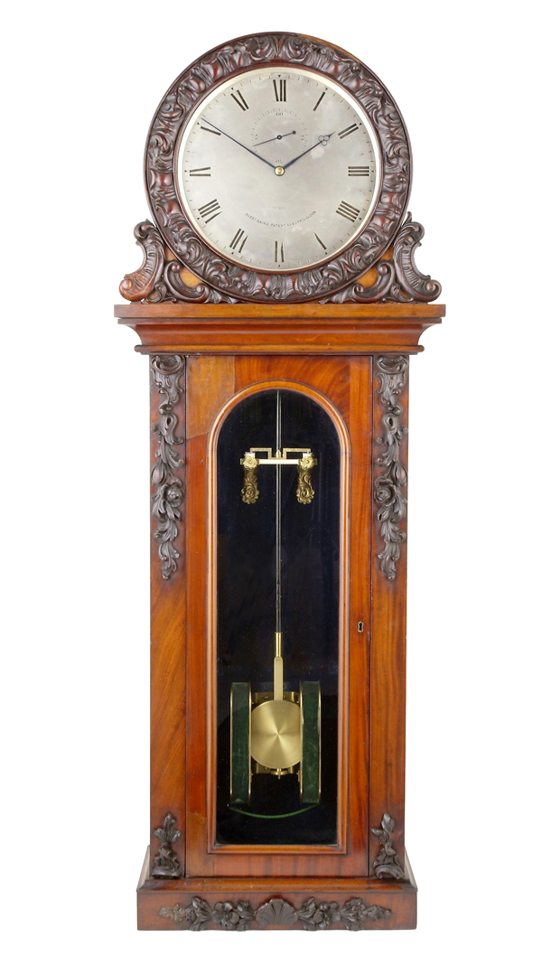 Precision regulator clock with electromagnetically-driven pendulum, by Alexander Bain, London, around 1845 (Deutsches Uhrenmuseum [German clock museum], Inventory No. 2004-162). One of the first electric clocks ever built. The pendulum was kept swinging by pulses of magnetic force from an electromagnet (solenoid) (visible, bottom) near the bob, powered by a battery, and controlled by switch contacts (visible, center) on the pendulum rod.